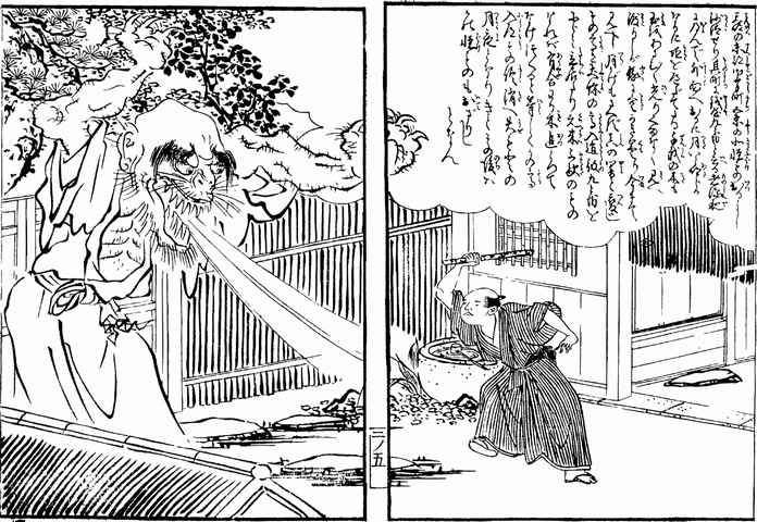 Taka-nyūudō (高入道) from Ehon-Sayo-Shigure (絵本小夜時雨)